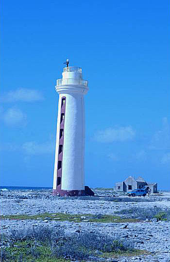 WILLEMSTOREN LIGHTHOUSE BUILT IN 1837 AND OLDEST ON BONAIRE